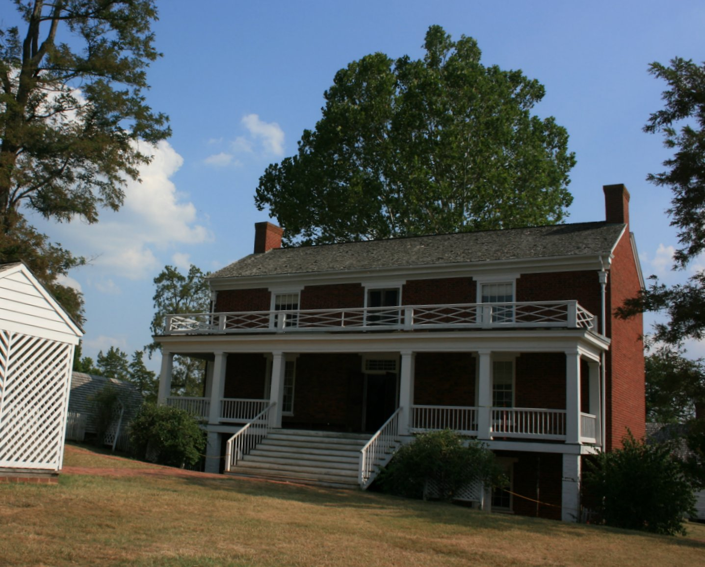 Mcleanhouse 2008 08 21 derivative